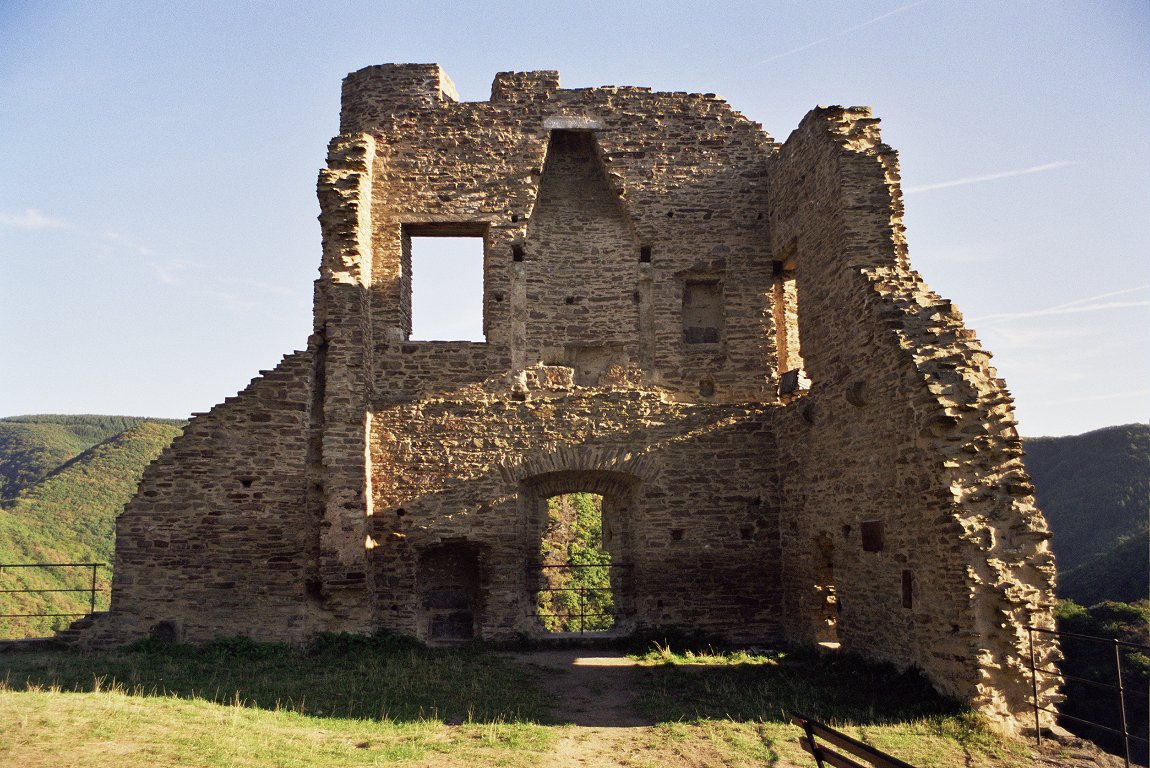 Castle Are, remains of the residential building